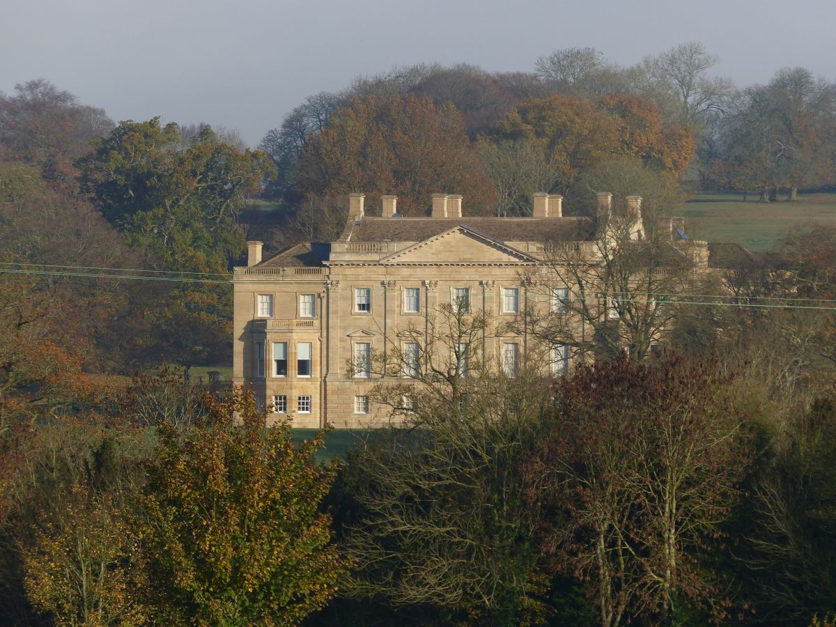 A Grade I listed country house near Great Barrington, Gloucestershire. Taken from a footpath near Little Barrington.